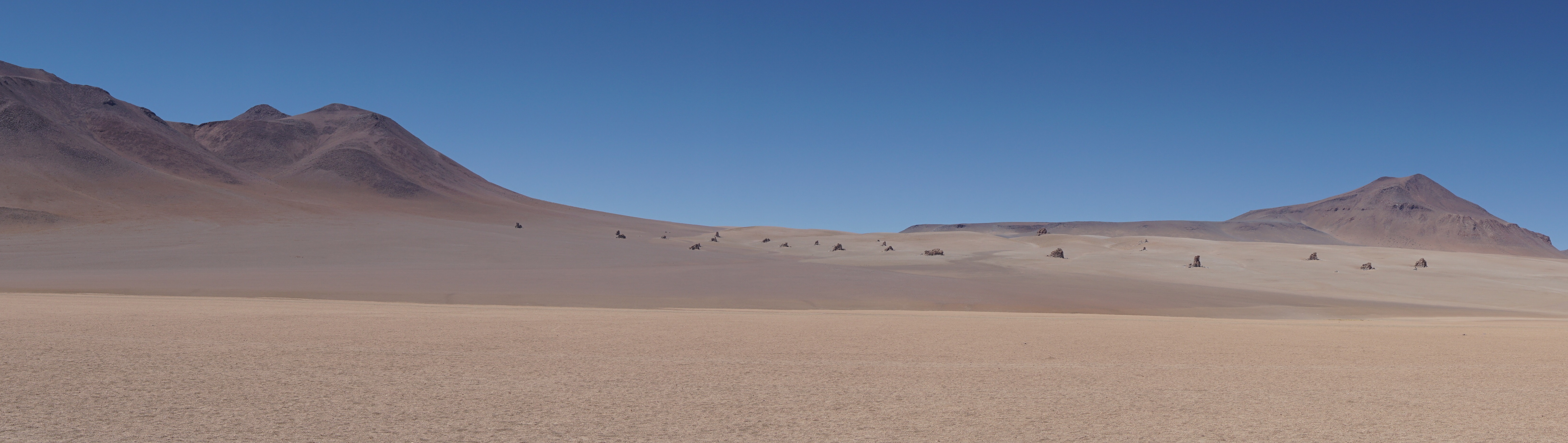 The Salvador Dalí Desert is located in the Eduardo Avaroa Andean Fauna National Reserve, Potosí Department, southwestern Bolivia. The place is called like this because similar landscapes have been painted by Salvador Dalí, although he was never there or knew about it.